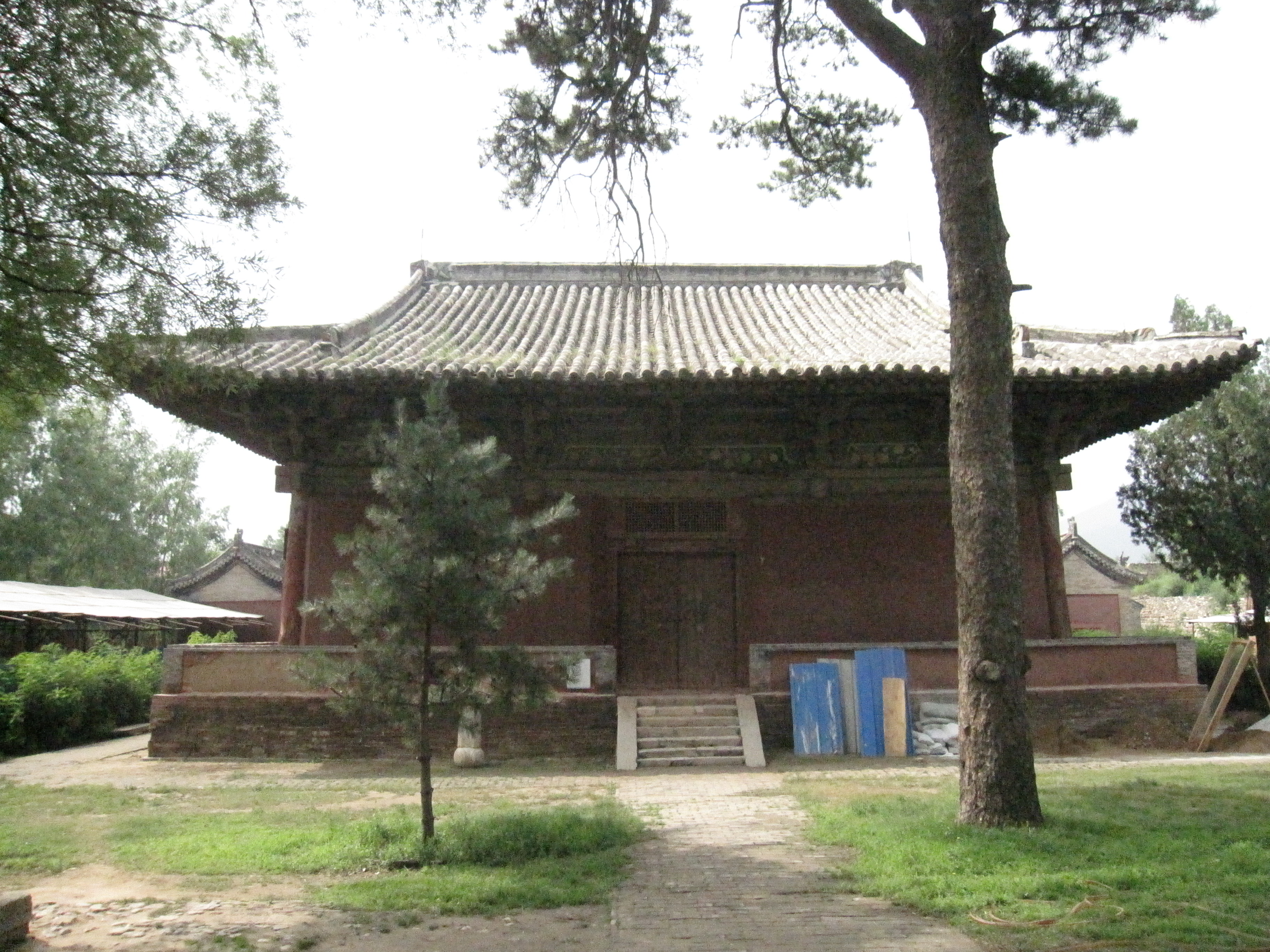 Wenshu Hall of Geyuan Temple from the rear